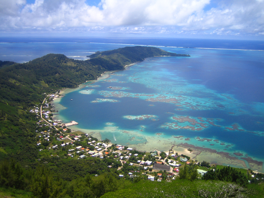 View on Rikitea from Mount Duff